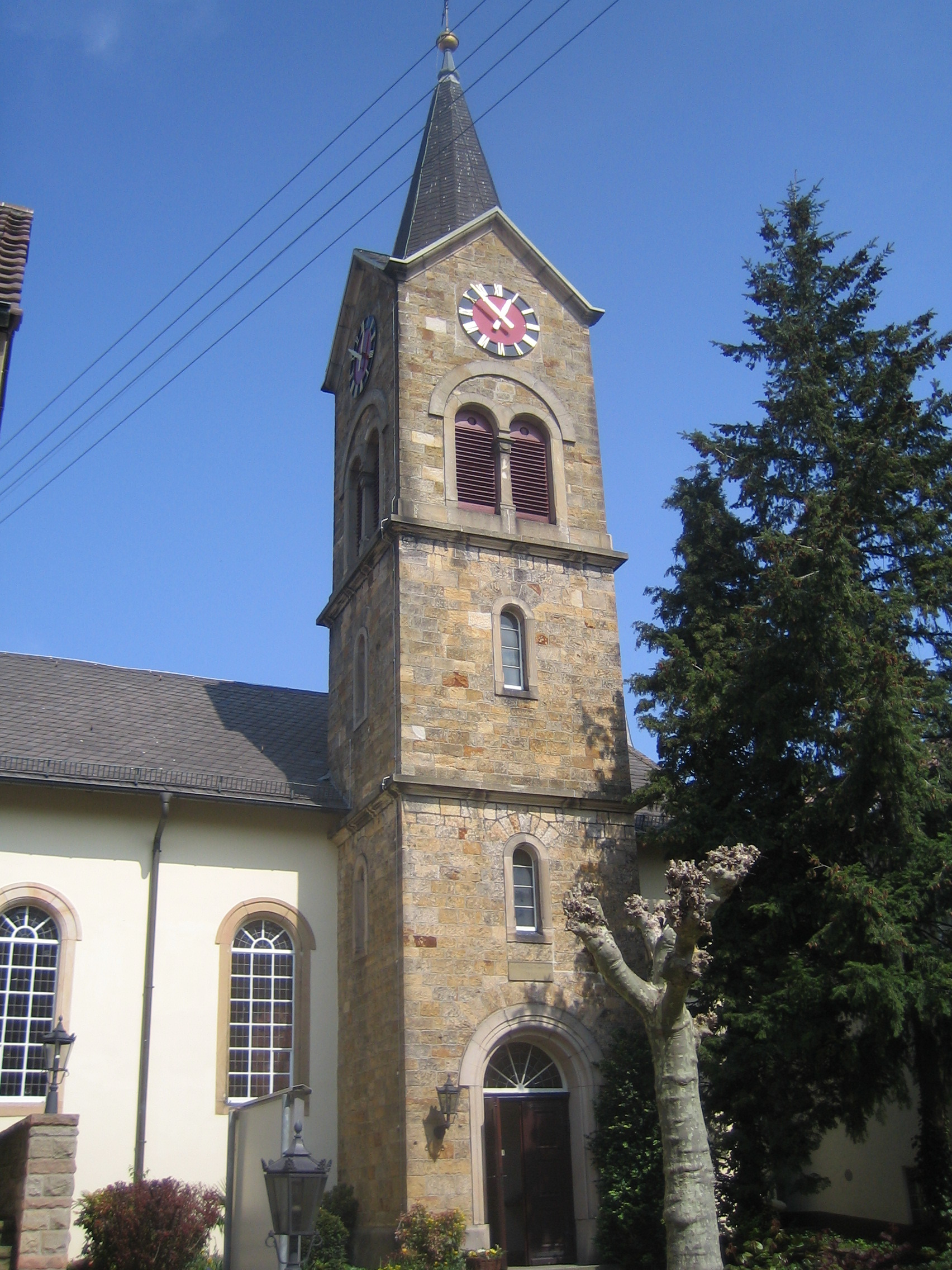 I took this photograph myself in April 2007 and hereby release it into the public domaine to the full extent allowable in relevant jurisdictions